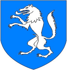 Arms of Donne: Azure, a wolf rampant argent (Gabriel Donne (d.1558), Abbot of Buckland Abbey, Devon, as seen on roof of Hall of Trinity Hall, Cambridge)